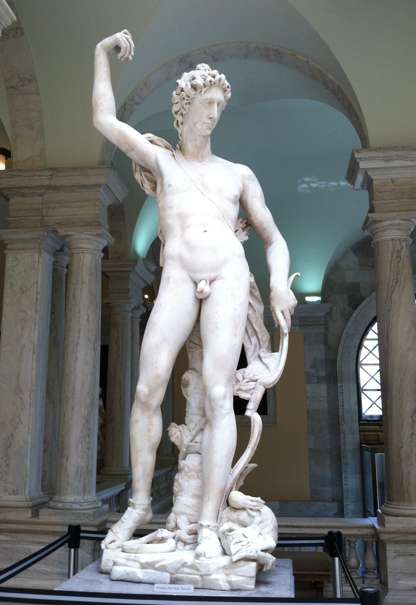 Statue of Greek god Apollo on display in the Walters Art Museum.